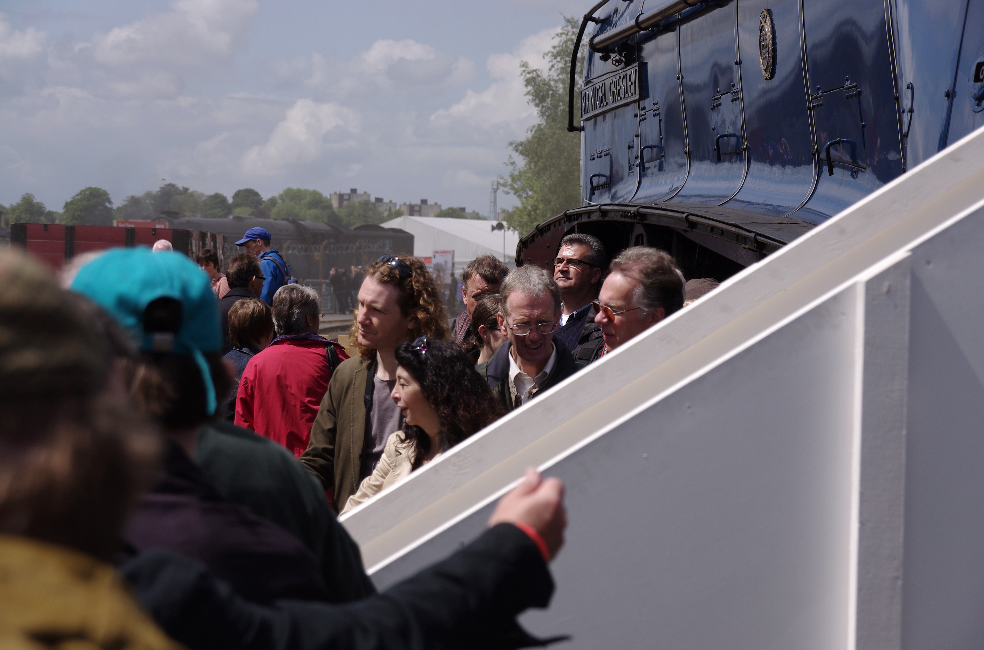 LNER A4 Pacific steam locomotive 60007 "Sir Nigel Gresley" at Railfest 2012.